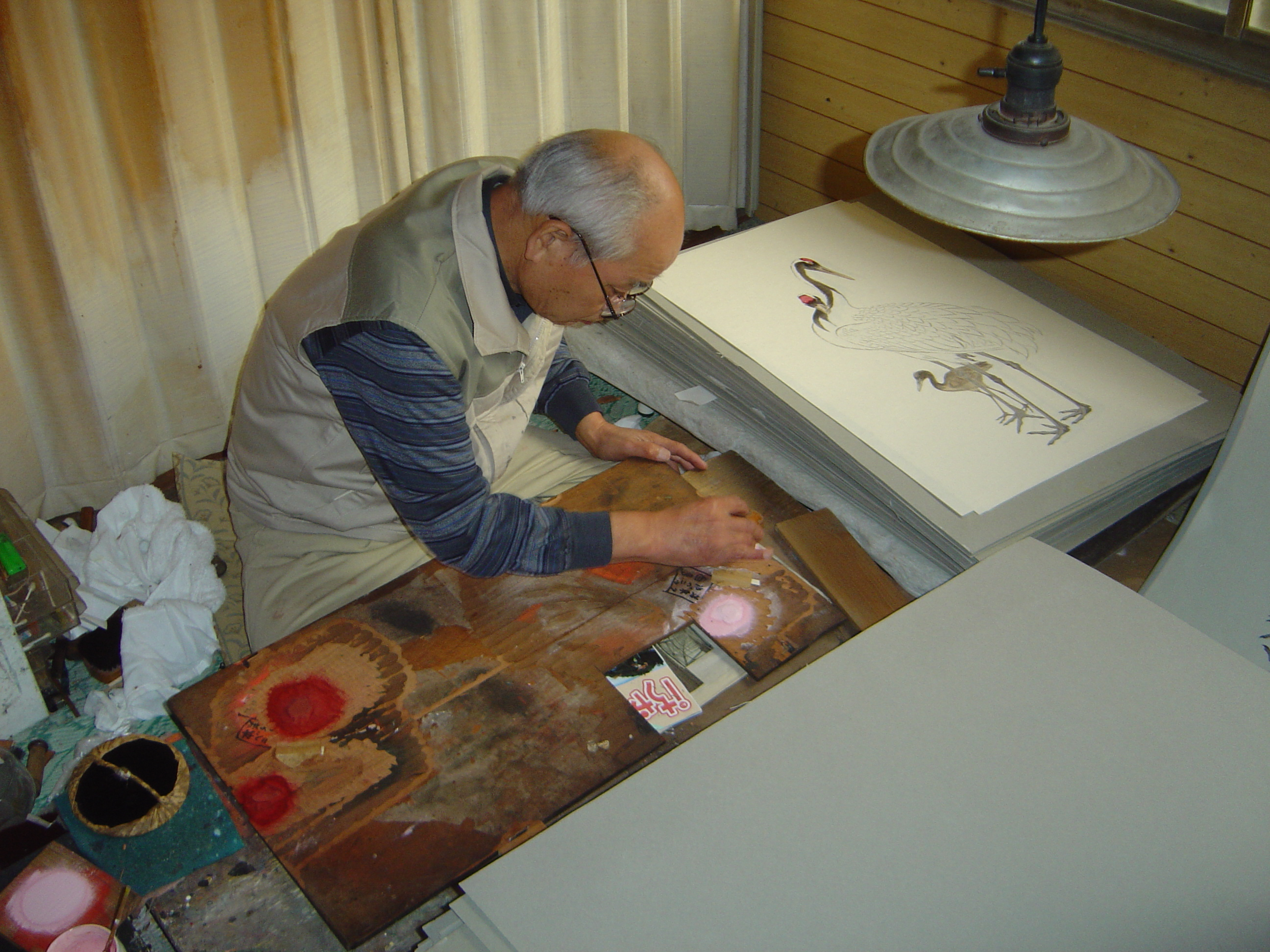 Ukiyo-e workshop, Tsukuba, Japan